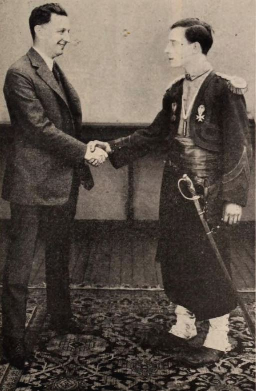 Producer Sol Lesser and actor Buster Keaton, on page 75 of the August 20, 1921 Exhibitors Herald.